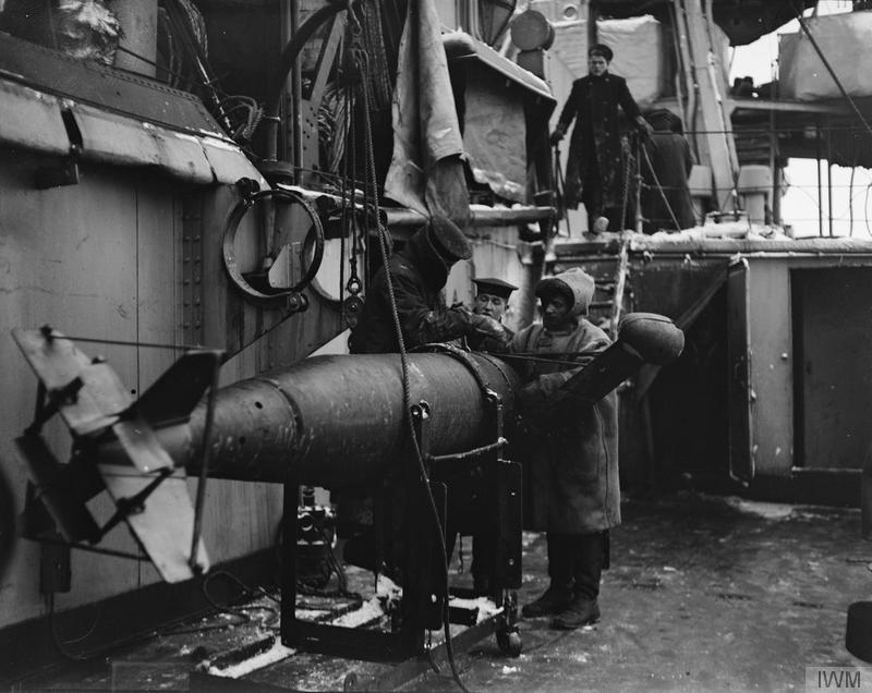 The British Naval Campaign in the Baltic, 1918-1919 Adjusting paravanes on board the Royal Navy cruiser HMS CARADOC, 1918.